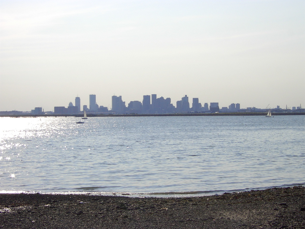 View of the Outside World from the town of Winthrop, located 4 miles east of the city.